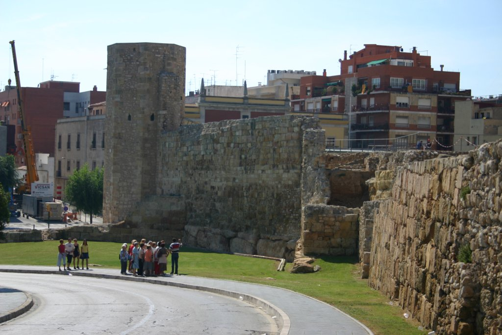 Tarragona. Roman Circus